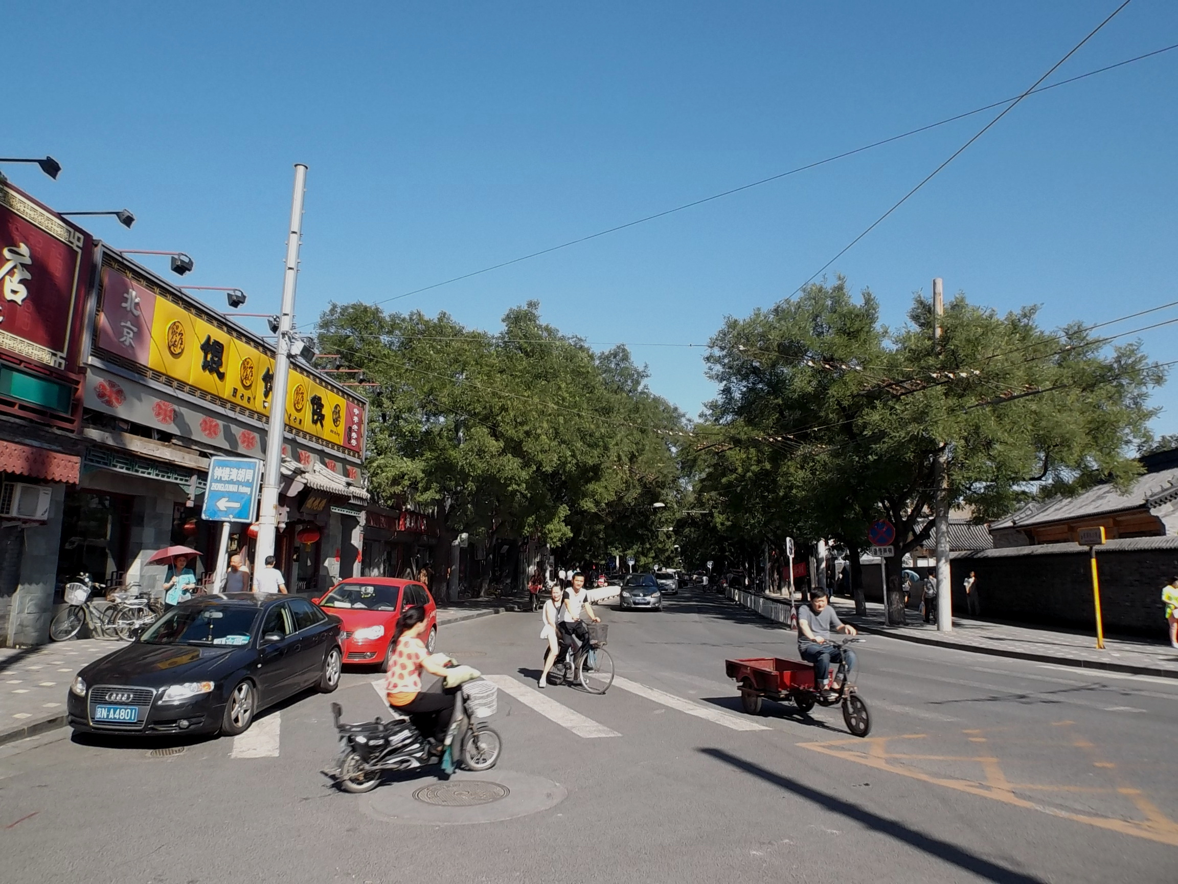 Gulou Dong Dajie (Gulou East Street) - Beijing, 4.9.2014